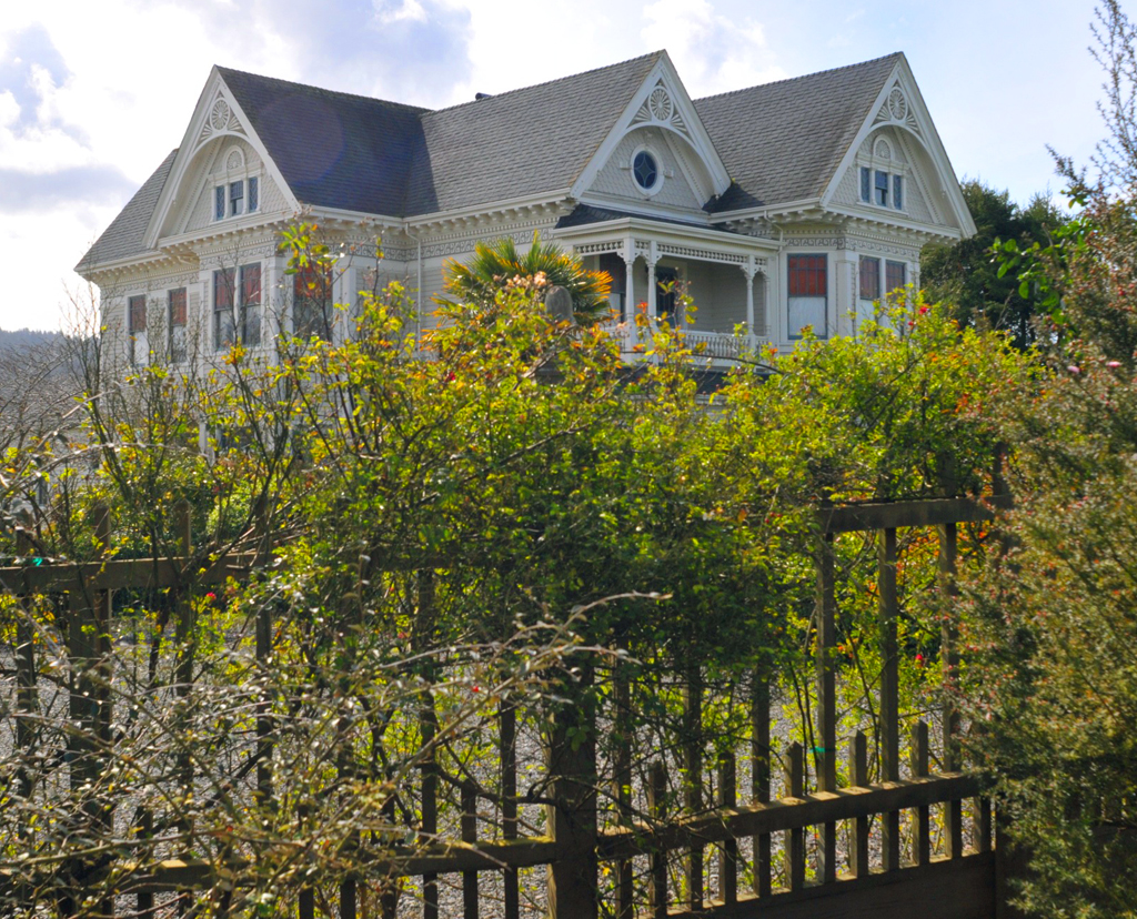 F. W. Andreasen-John Rossen House, Ferndale, California. 1901 Queen Anne, William S. Fitzell (architect). Photograph taken from street. For a c. 1901 image of same building, please see File:Linden Hall 1901.jpg.